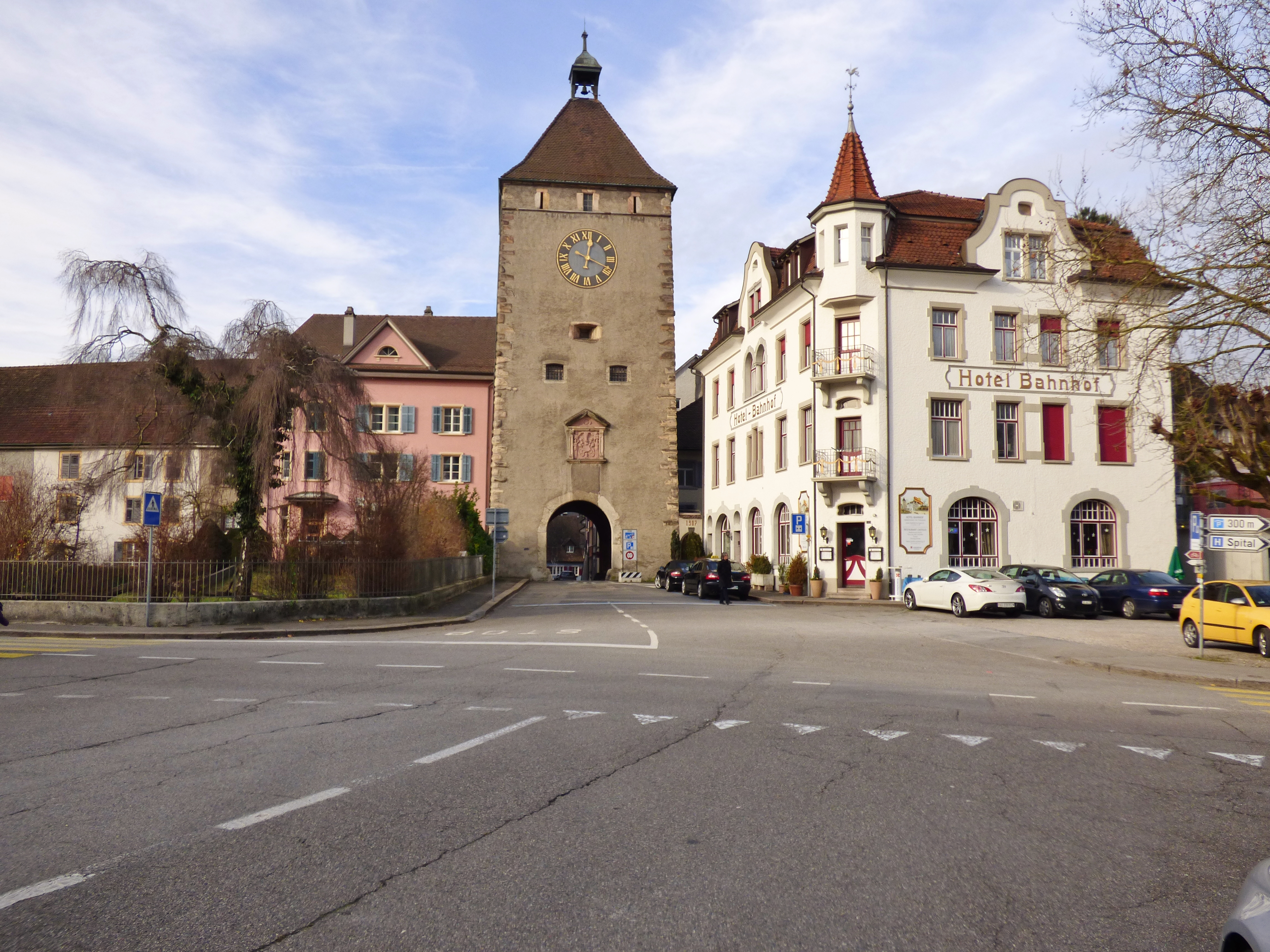 Old city gate Laufenburg, CH